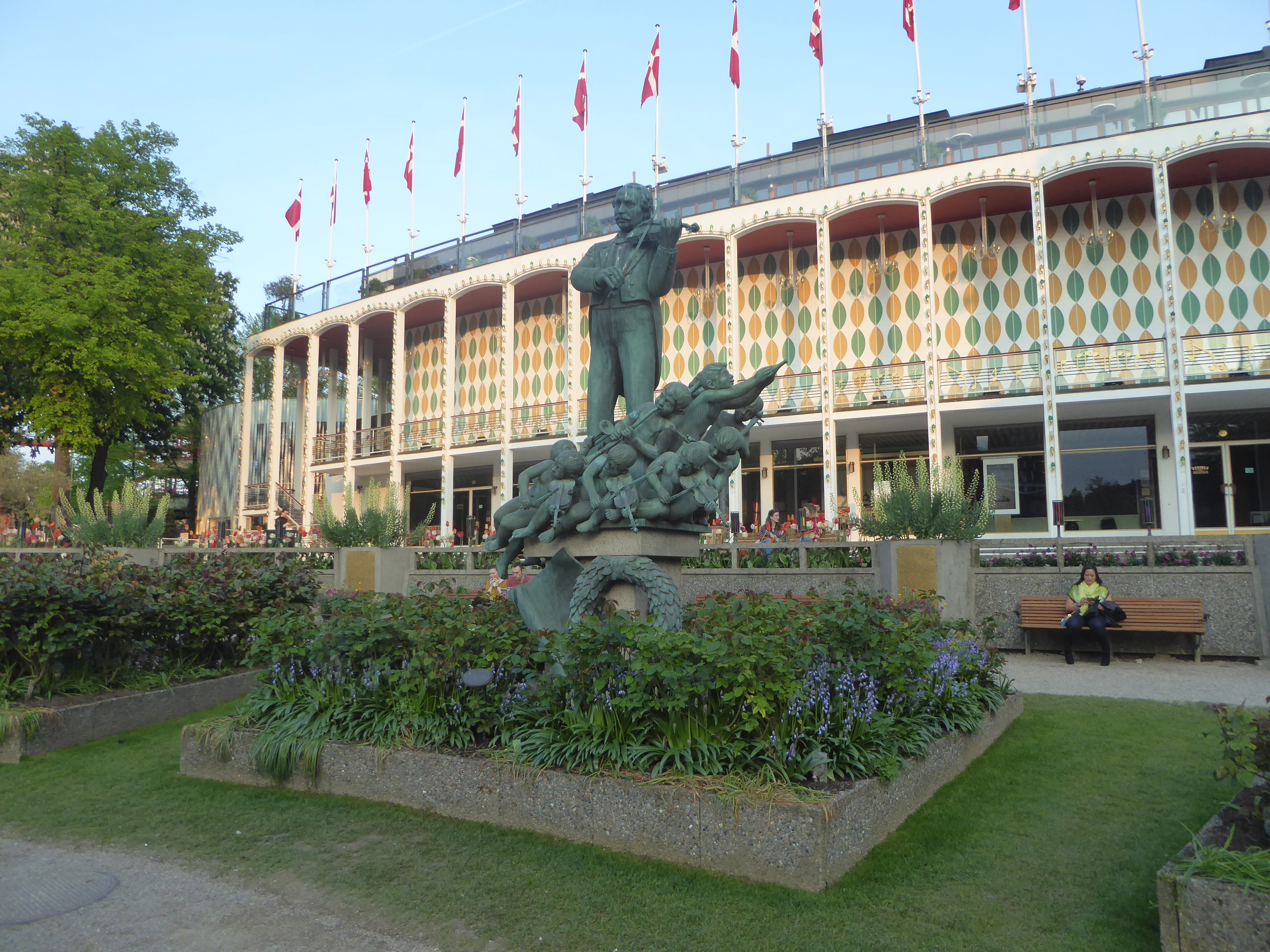 Memorial of the composer and conductor Hans Christian Lumbye (1810-1874) in front of the concert hall in the amusement park Tivoli in Copenhagen. The memorial was created by Svend Rathsack (1885-1941) in 1930.